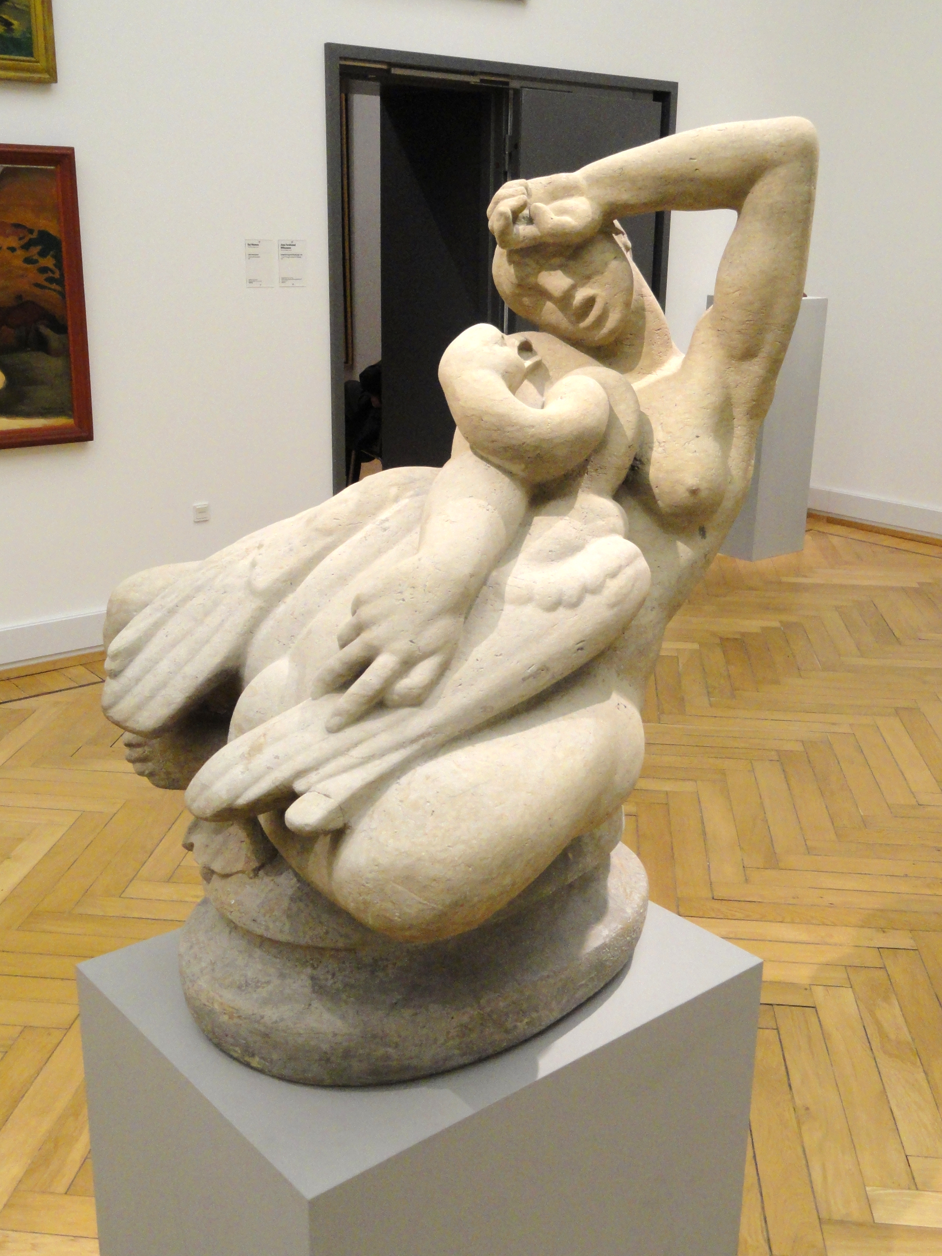 Statens Museum for Kunst, Copenhagen, Denmark. Photography was permitted without restriction of all artworks old enough to be in the public domain. This artwork is in the public domain because its creator died more than 70 years ago.